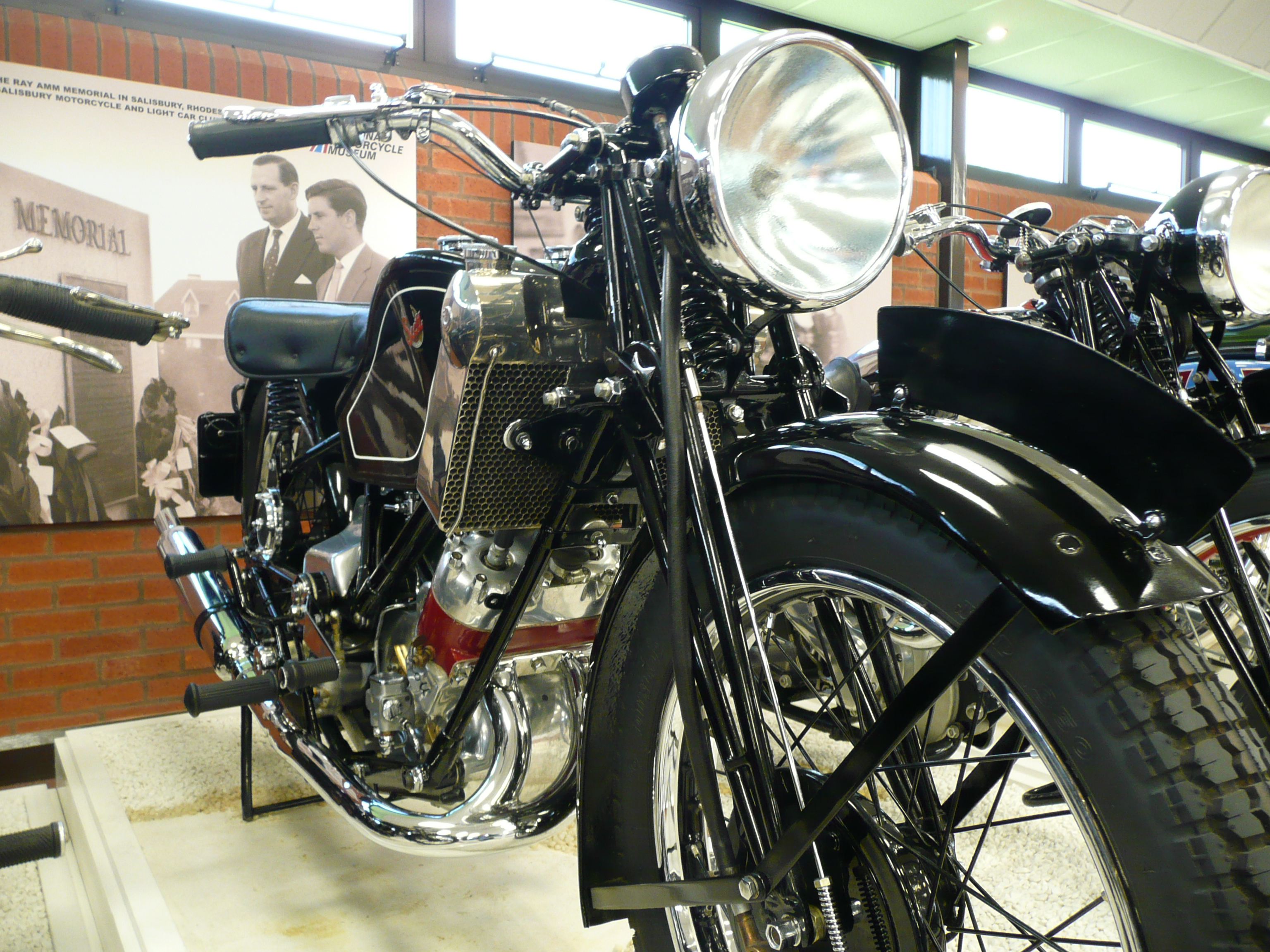 Scott Squirrel 1937